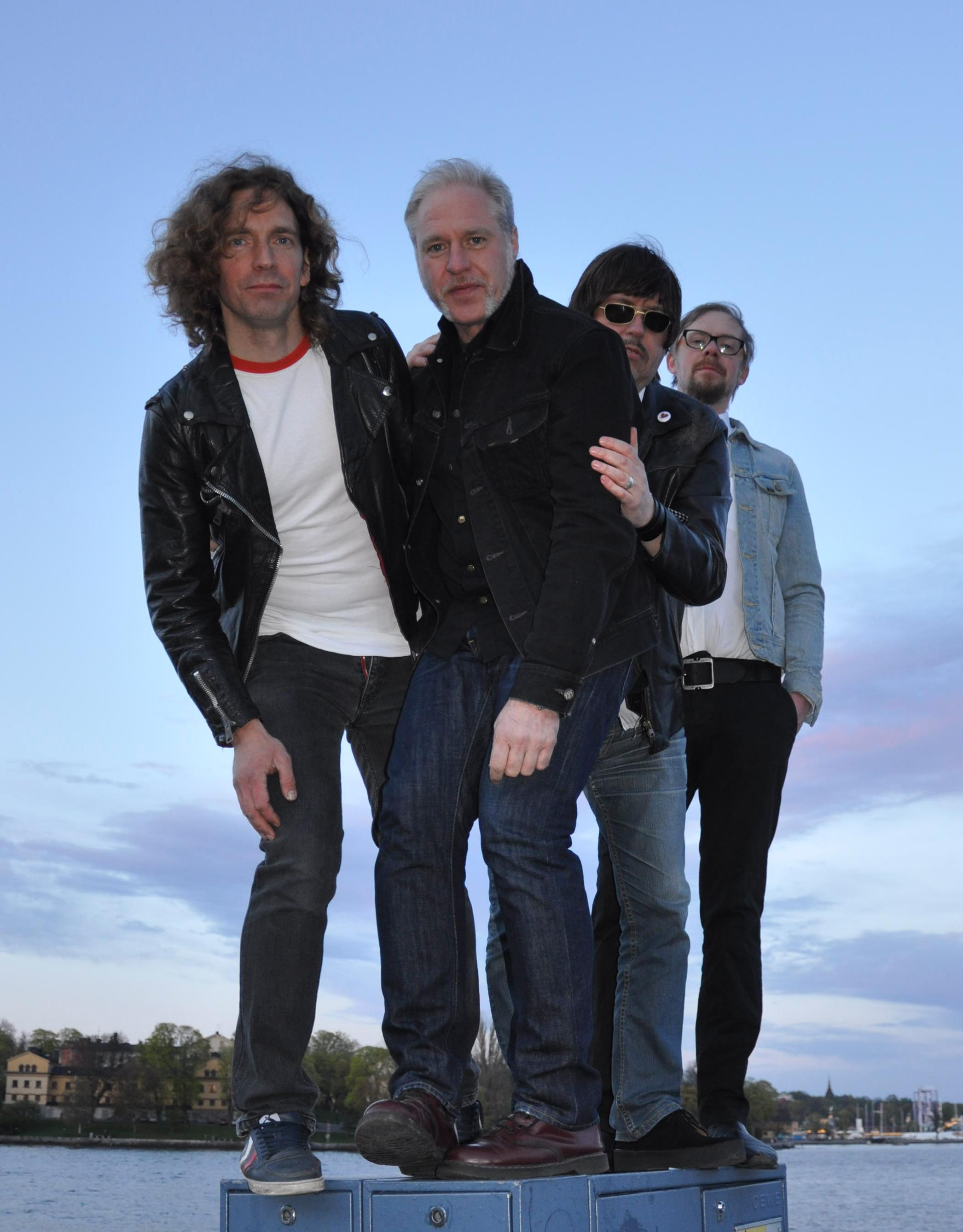 The Maharajas 2014 Sthlm